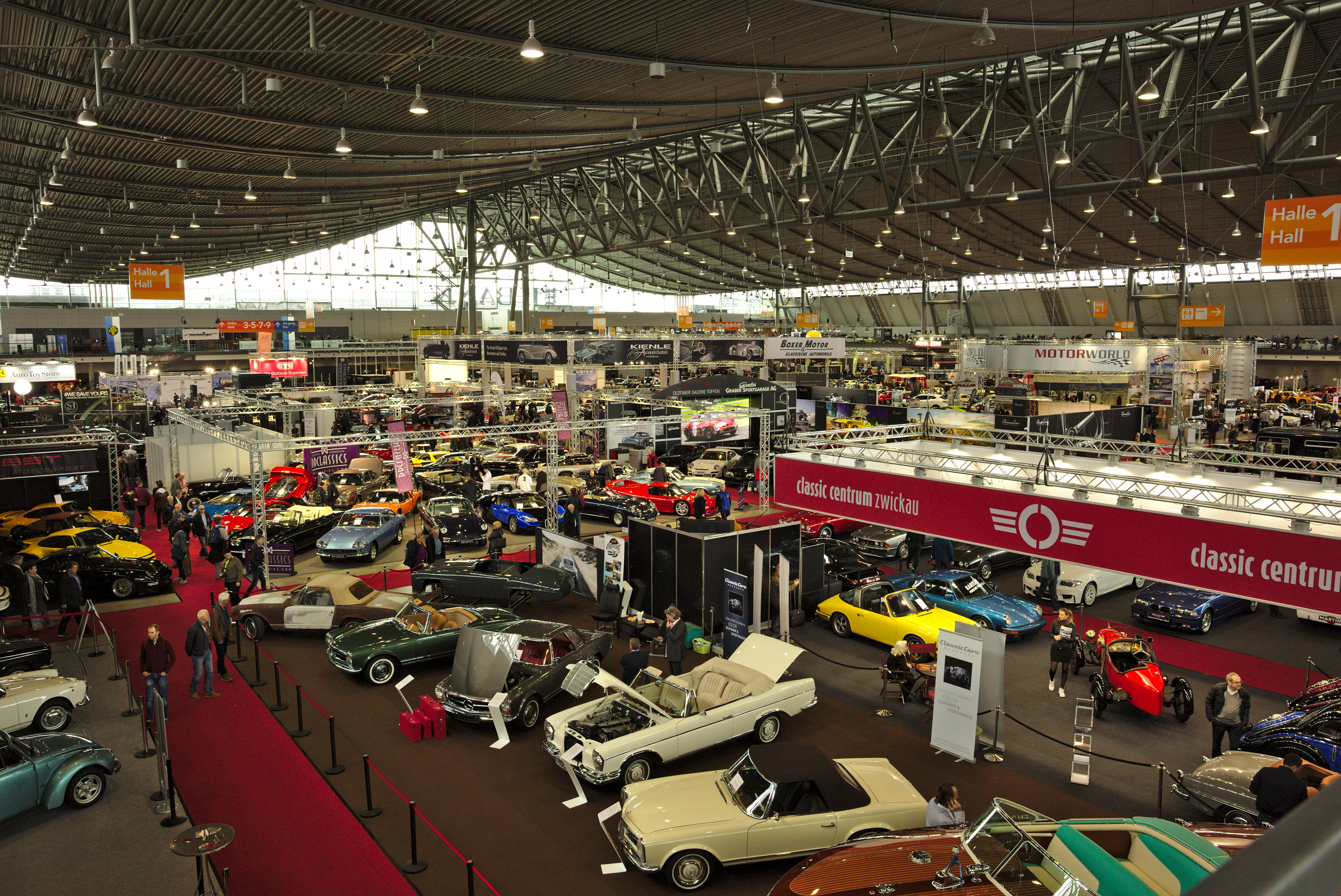 Retro Classics 2018 (Hall 1)